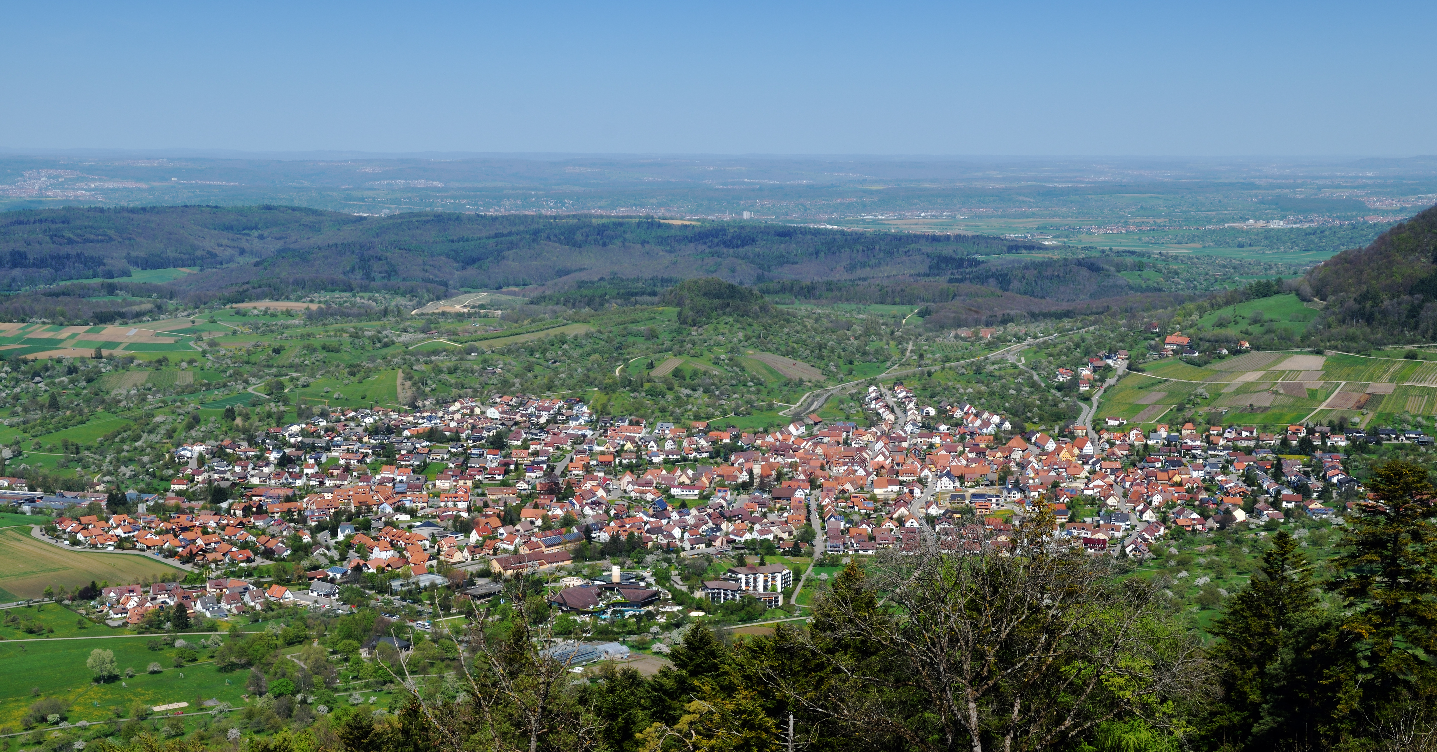 Beuren, district of Esslingen as seen from the Hohenneuffen Castle.